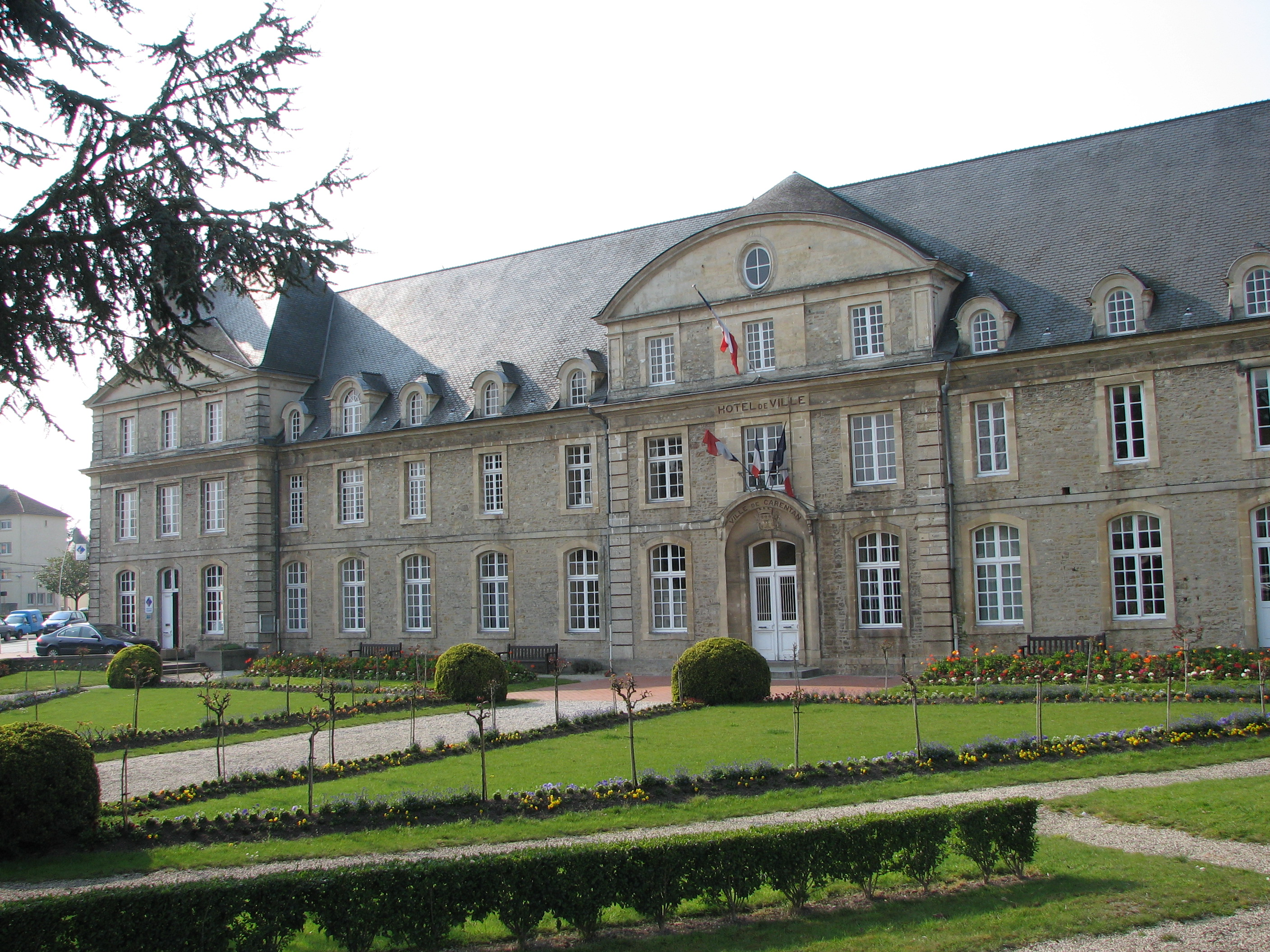 Mairie de Carentan, Normandie //CarentanCity Hall from east, Normandy